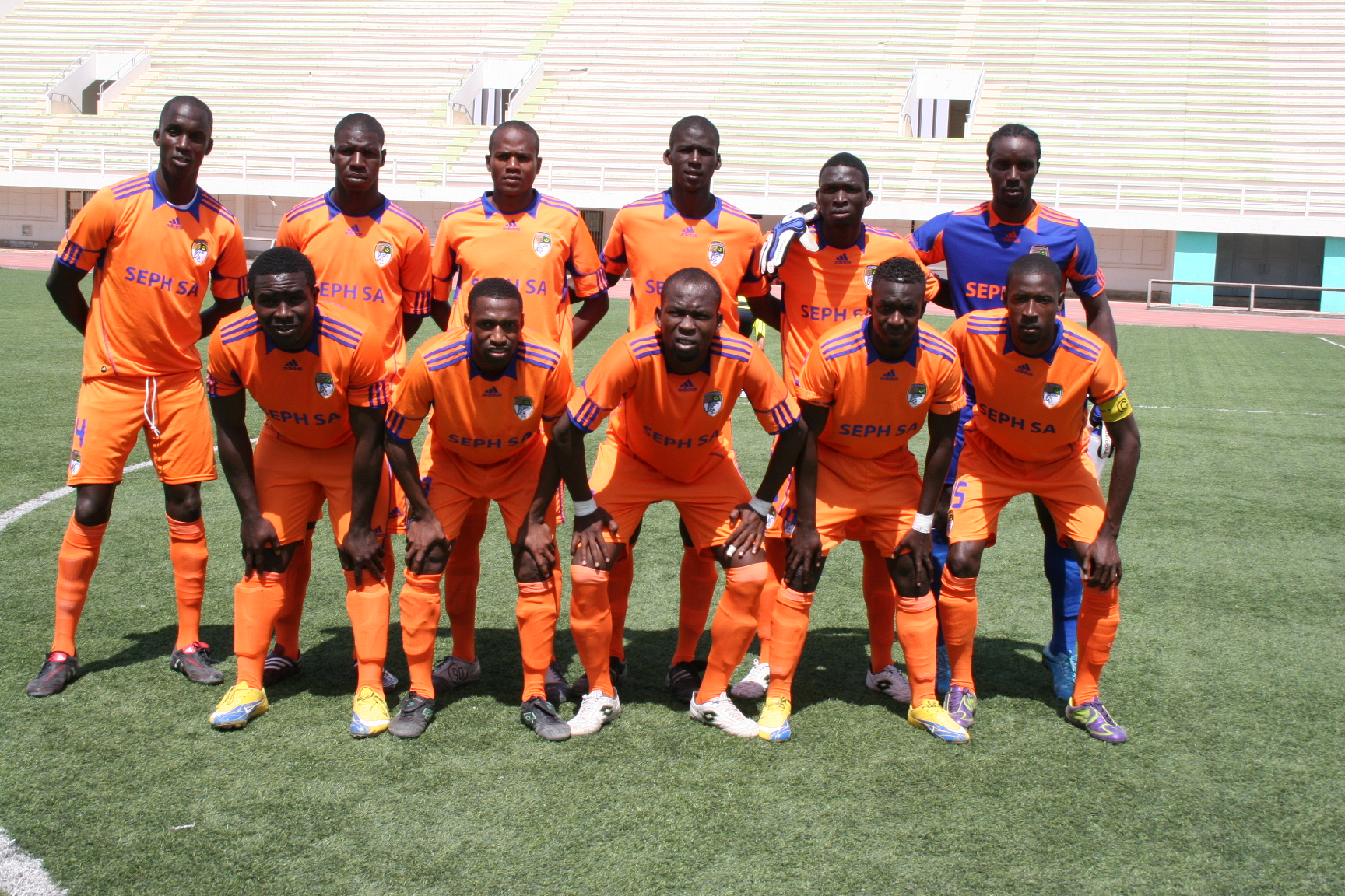 [Mohamed Foily] FC Nouadhibou advanced to the semi-finals by crushing ASC Kedia on penalty kicks. إف سي نواذيبو يتقدم إلى نصف النهائي بعد سحق الكدية بركلات الترجيح Le FC Nouadhibou s'est hissé en demi-finale en battant l'ASC Kedia lors de l'épreuve des penaltys.